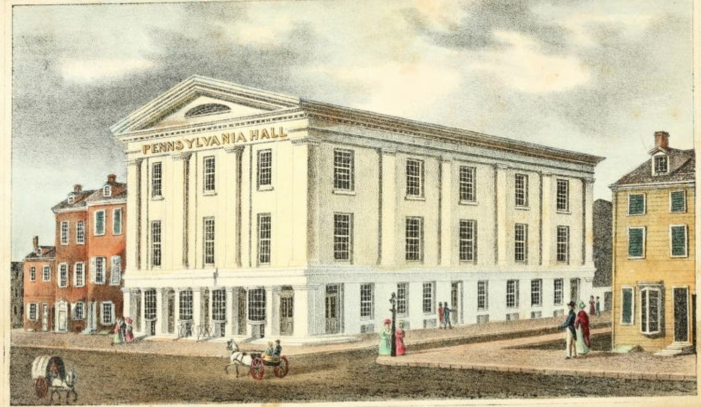 Pennsylvania Hall prior to its burning